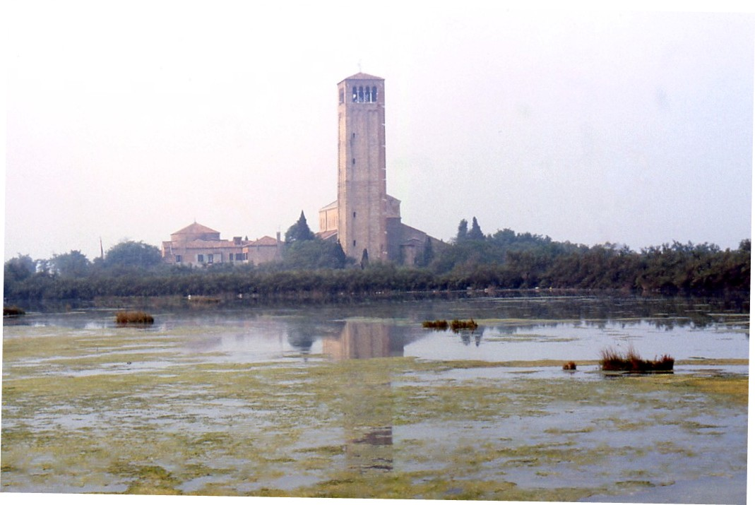 View of Torcello in the Lagoon of Venice Italy.